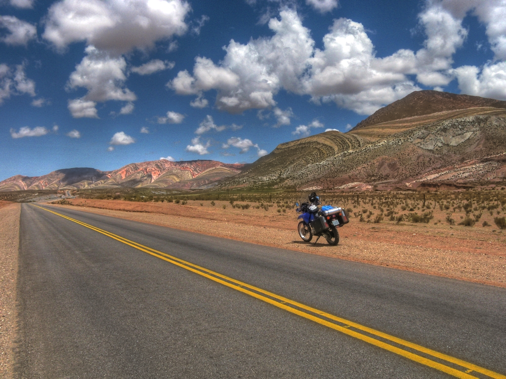 Abra Pampa